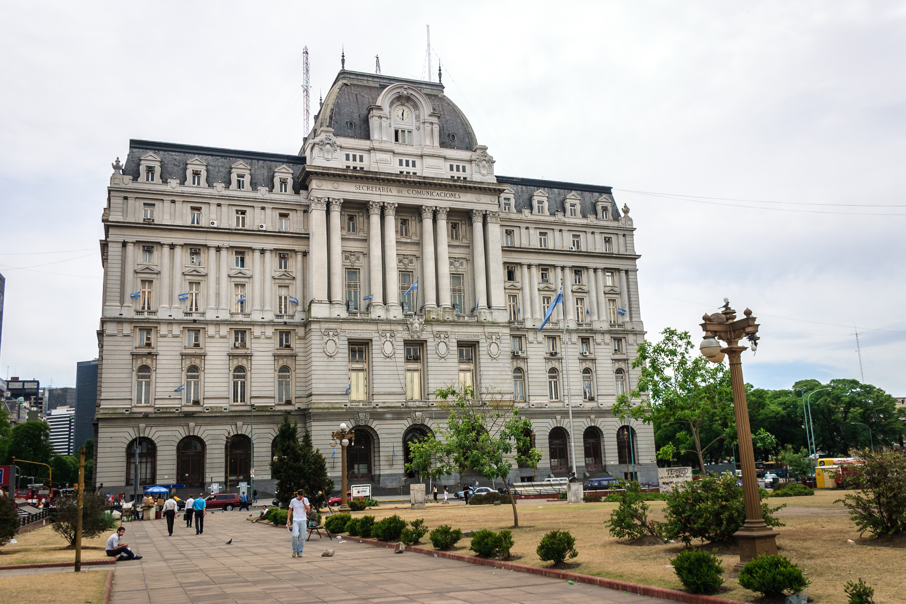 Old Correo Central building, Buenos Aires, Argentina.